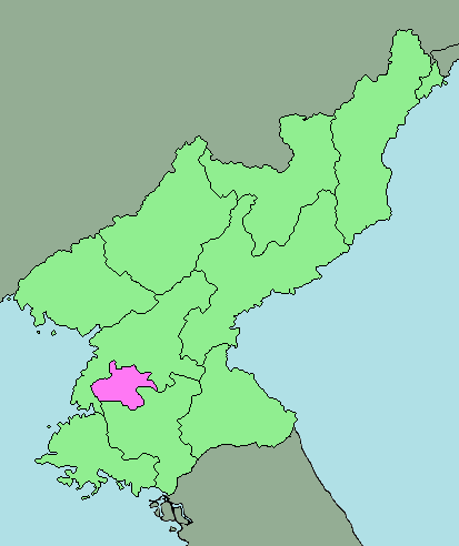 area map of Pyongyang